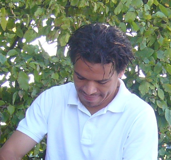 Footballer Ceara.